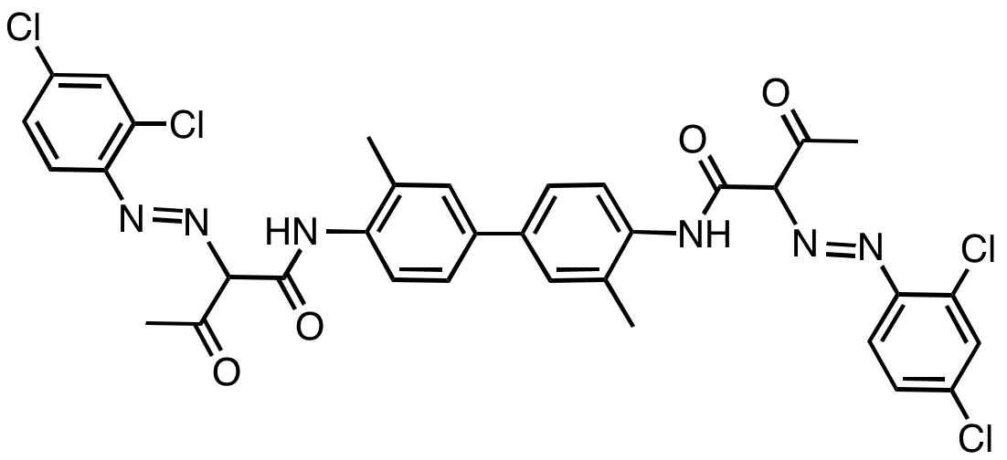 re-corrected prep of Pigment yellow 16